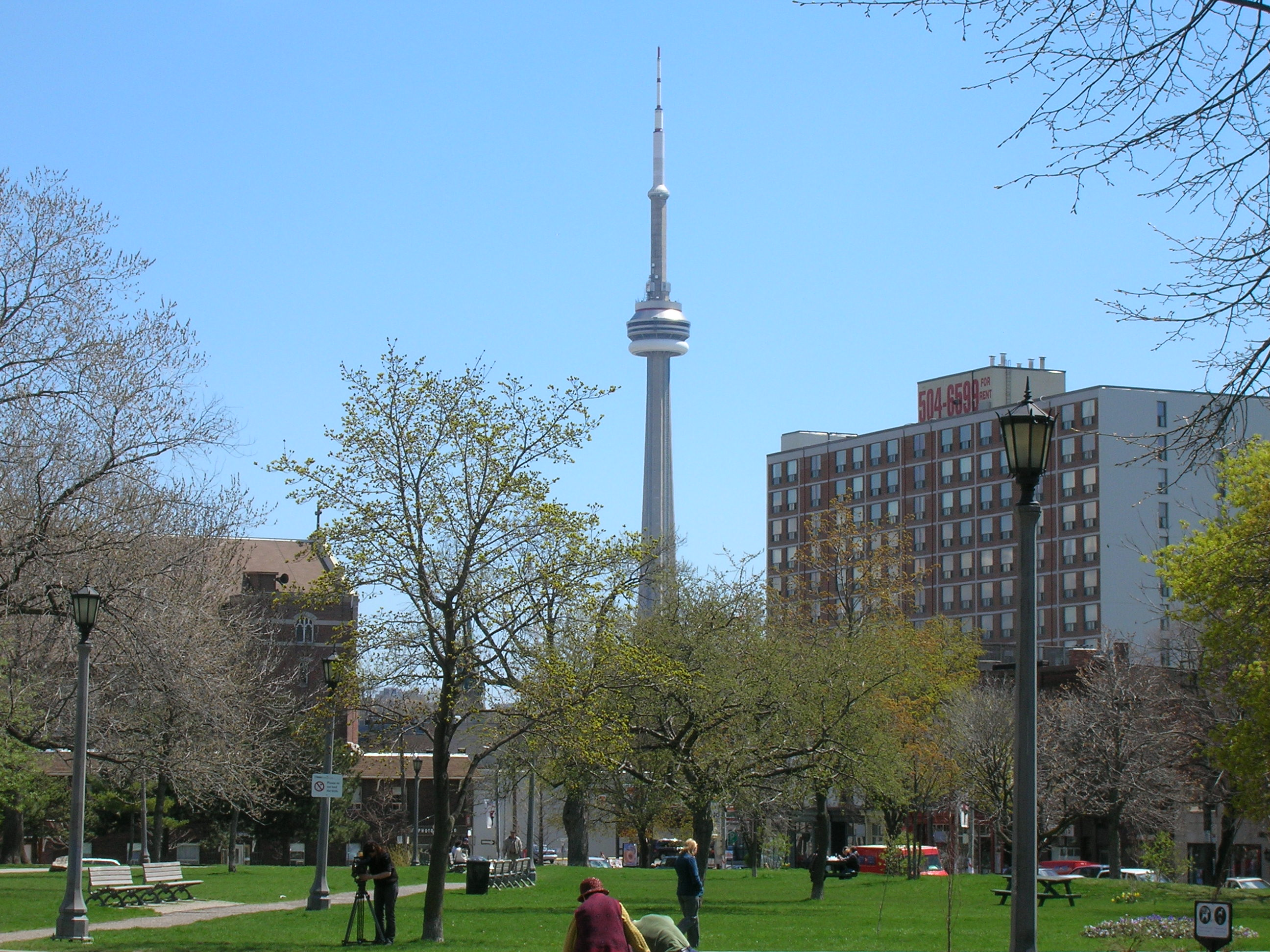 The CN Tower as seen from Trinity Bellwoods Park in Toronto. This photo was taken on April 27, 2006.